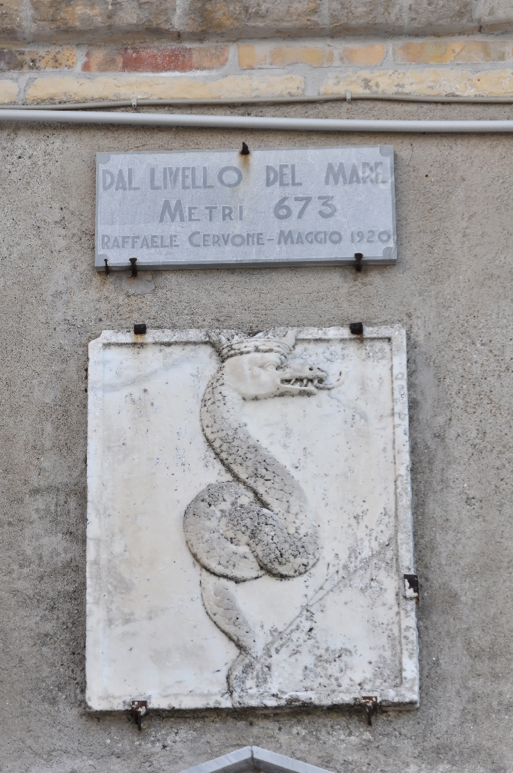 Santa Maria della Civita 2012 Dieses Foto entstand in Zusammenarbeit mit Stadtbesichtigungen.de Die Seiten Stadtbesichtigungen.de, der dazugehörige Reise Blog sowie die Facebookseite: Stadtbesichtigungen Rom dürfen dieses Bild für Ihre Veröffentlichungen ohne den Hinweis auf Wikipedia, Commons bzw der Lizenz verwenden. Die Verantwortlichen habe von mir (Ra Boe) die Originaldaten zur freien Verfügung übermittelt bekommen. Foro Appio Mansio Hotel